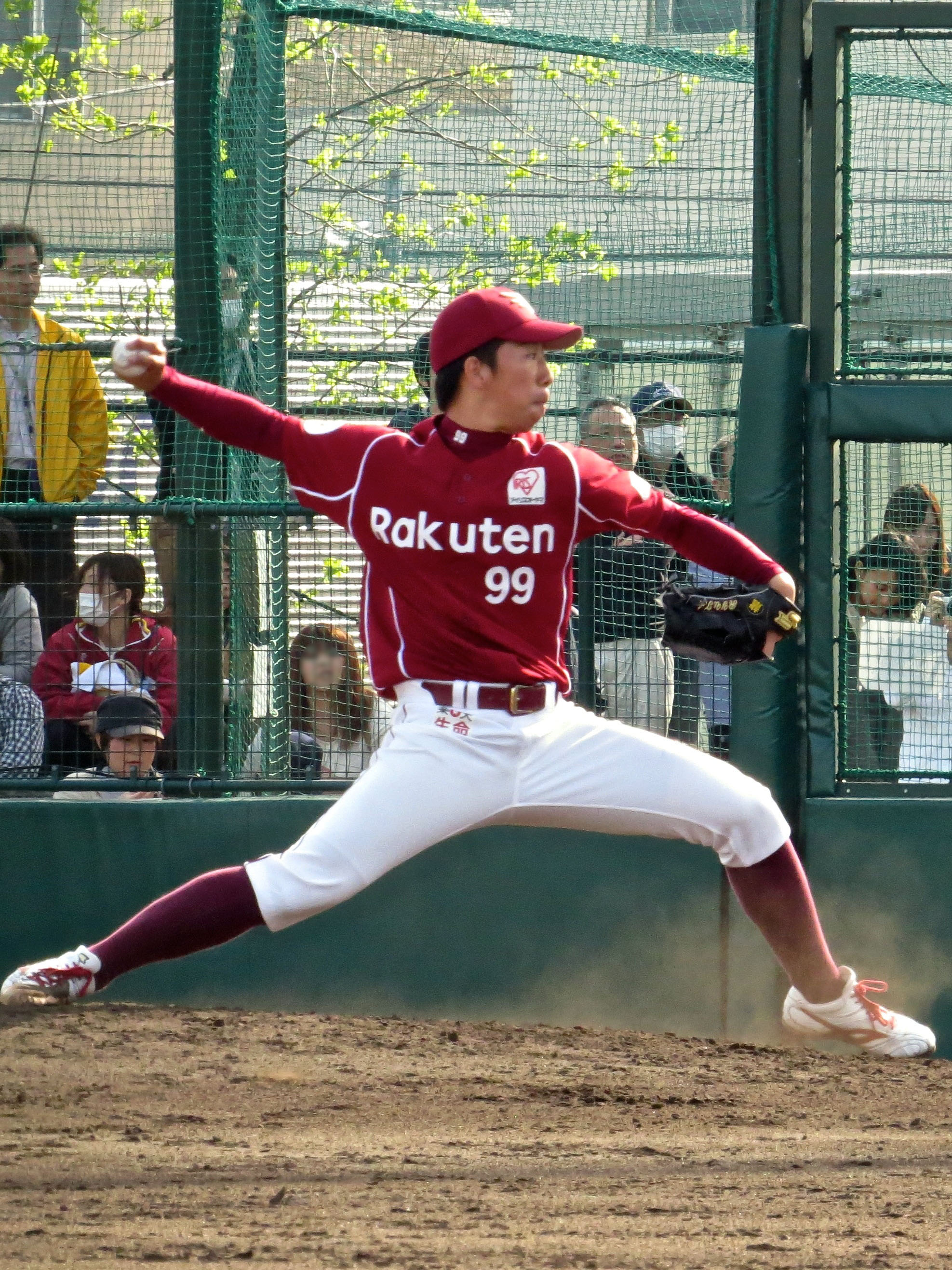 Ryuta Konno, pitcher of the Tohoku Rakuten Golden Eagles, at Lotte Urawa Baseball Ground.